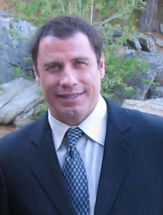 John Travolta at birthday party for Ellen Travolta, 2004. Cropped from original - this is a cropped version of Image:John Travolta 2004.jpg